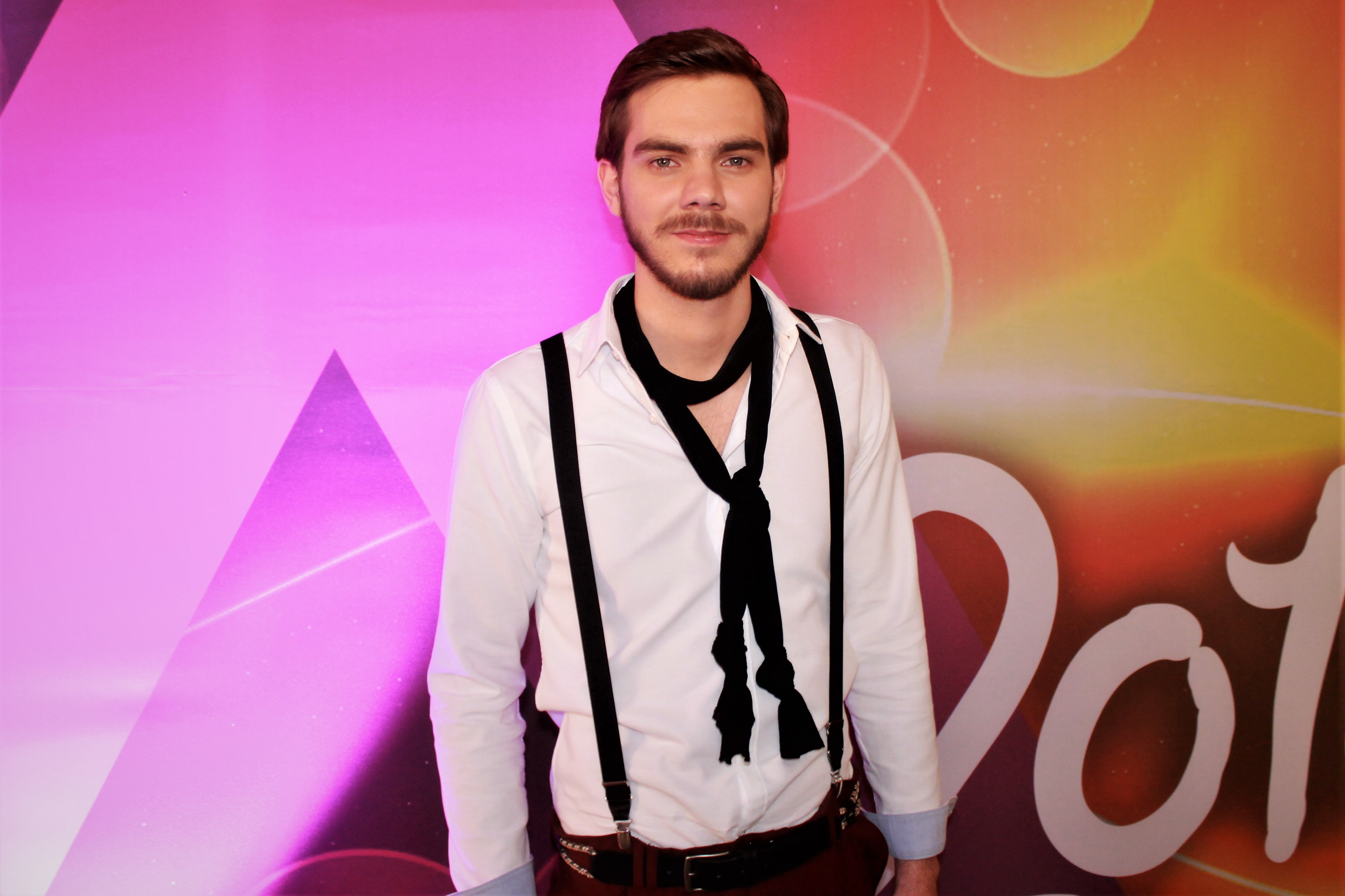 A Dal 2018 participant: Gergely Dánielfy